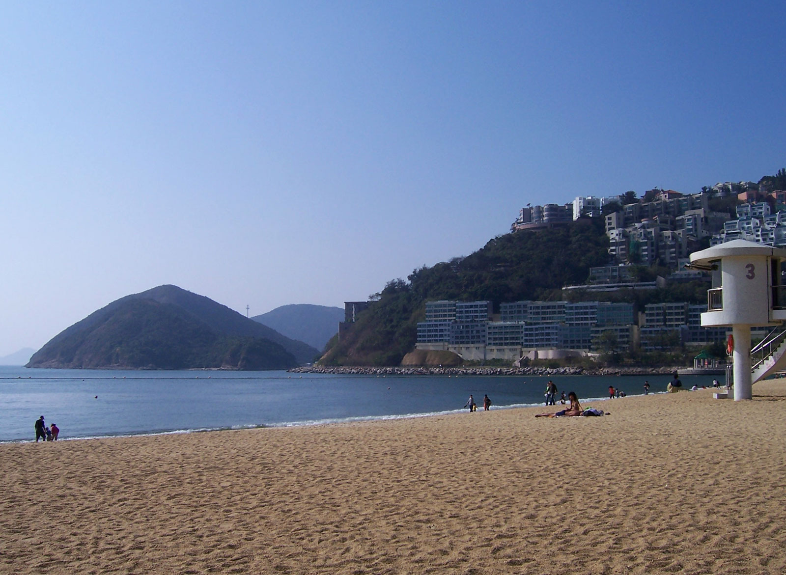 Repulse Bay Beach. Taken by Enoch Lau on 2 January 2006. As a courtesy, please let me know if you alter this image or this image description page. Original filename was 100_1221.JPG.